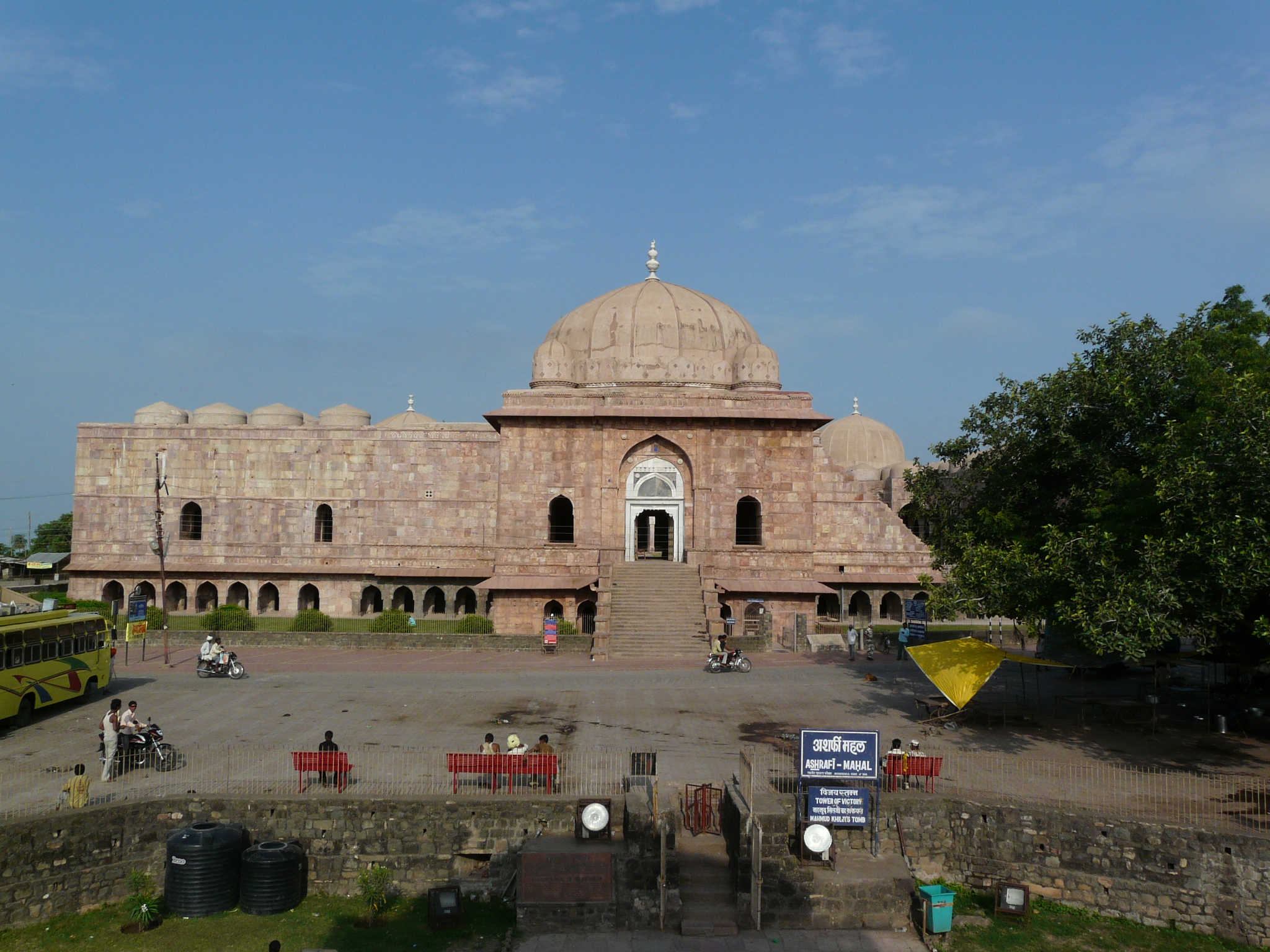 The open square in front of the masjid is Mandu's downtown, village square. It gets pretty busy during the day. Jama Masjid, Mandu, Madhya Pradesh, India